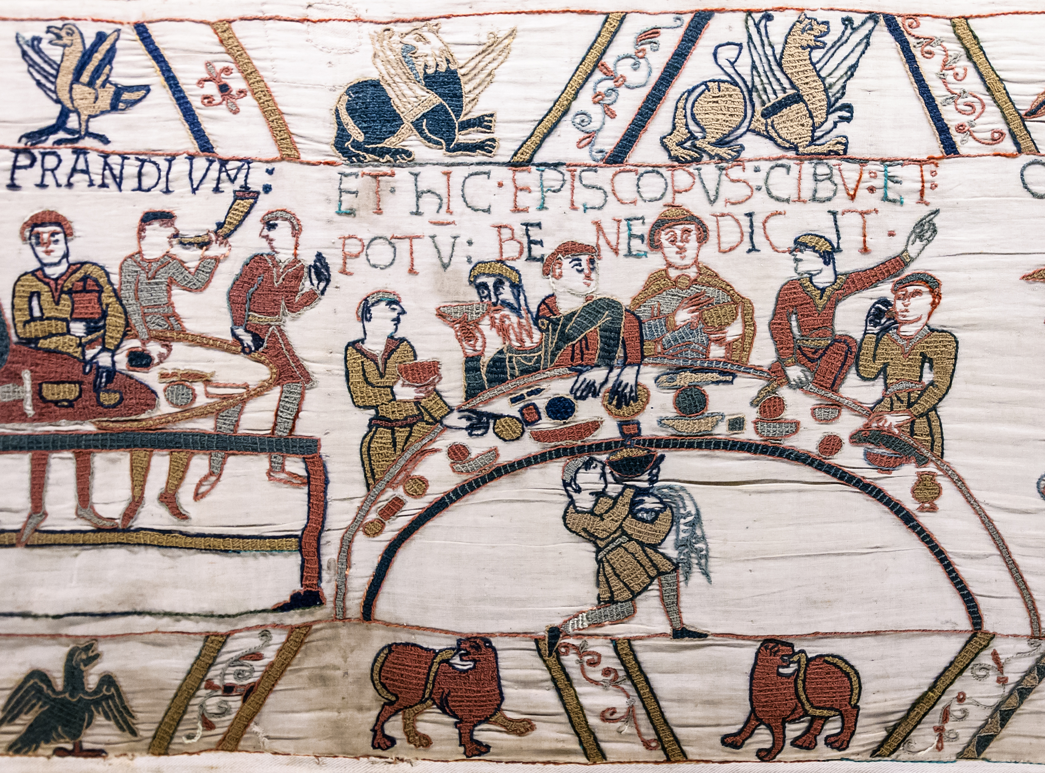 Bayeux Tapestry - Scene 43: Bishop Odo blesses the first banquet that Duke William and the Norman Barons hold on English soil. The bishop is recognisable by his tonsure and also by the fish in front of him. Titulus: ET HIC EPISCOPUS CIBU[M] ET POTU[M] BENEDICIT (And here the bishop blesses the food and drink)